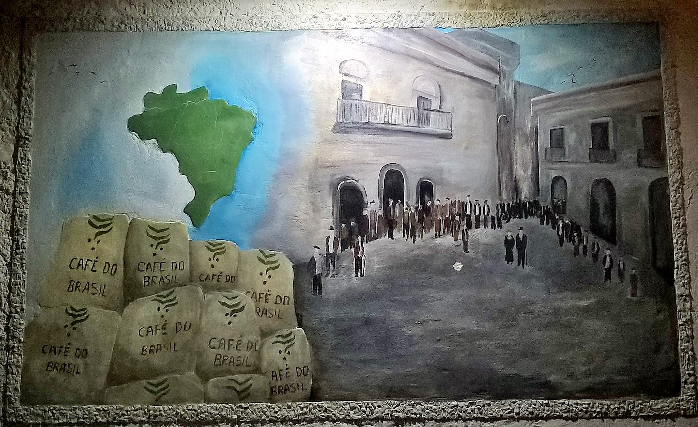 Murales representing Alessandro Siciliano, painted by Angelo Rago, San Nicola Arcella (Italy)